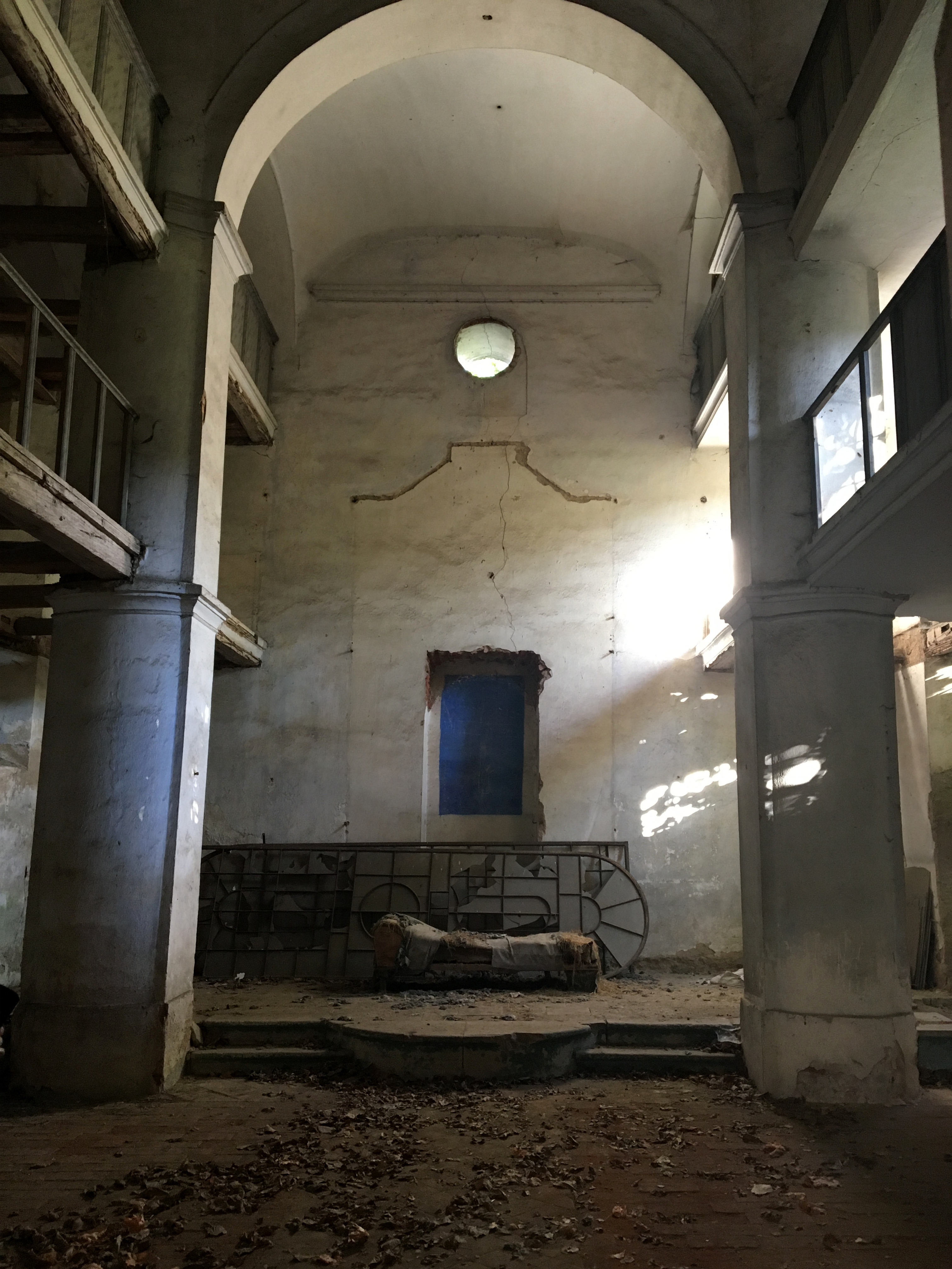 Interior of the former synagogue in Zderaz,Rakovník District, Central Bohemian Region, Czech Republic.